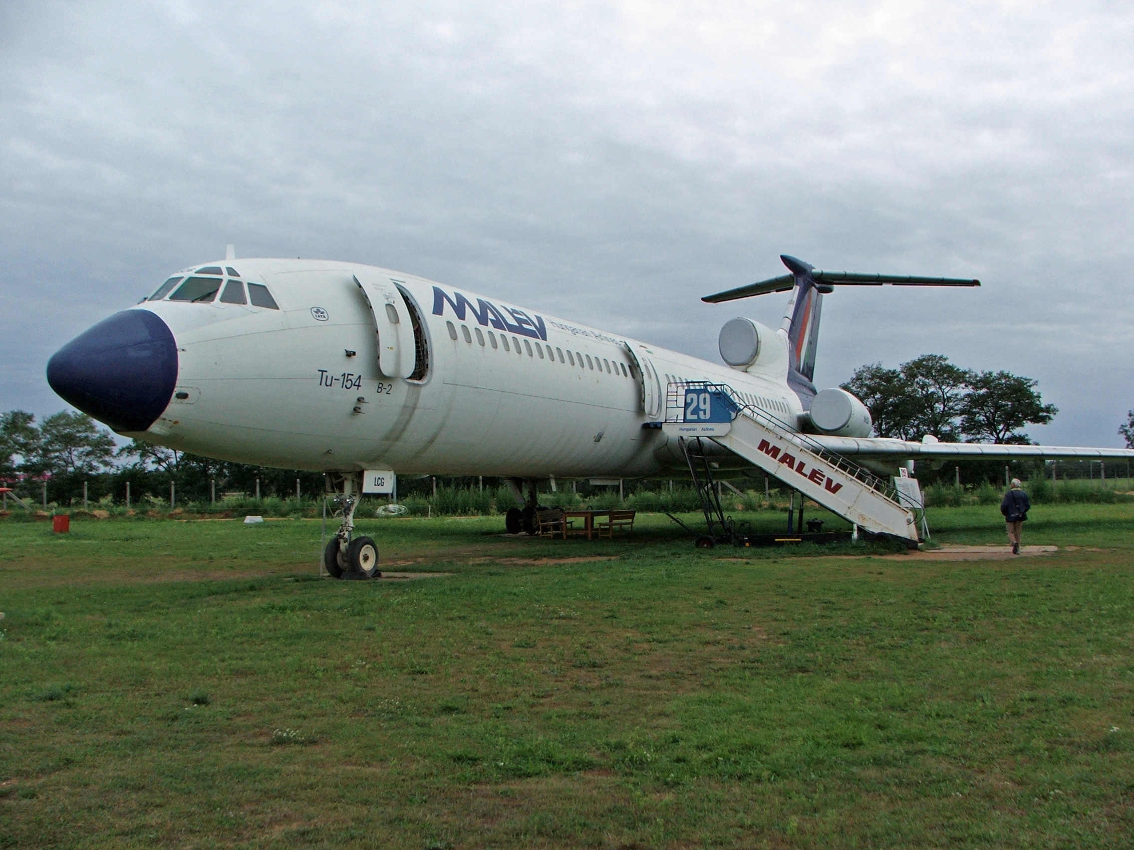 MALÉV Tu-154B2 in Open Air Aircraft Museum at Ferihegy airport, Budapest